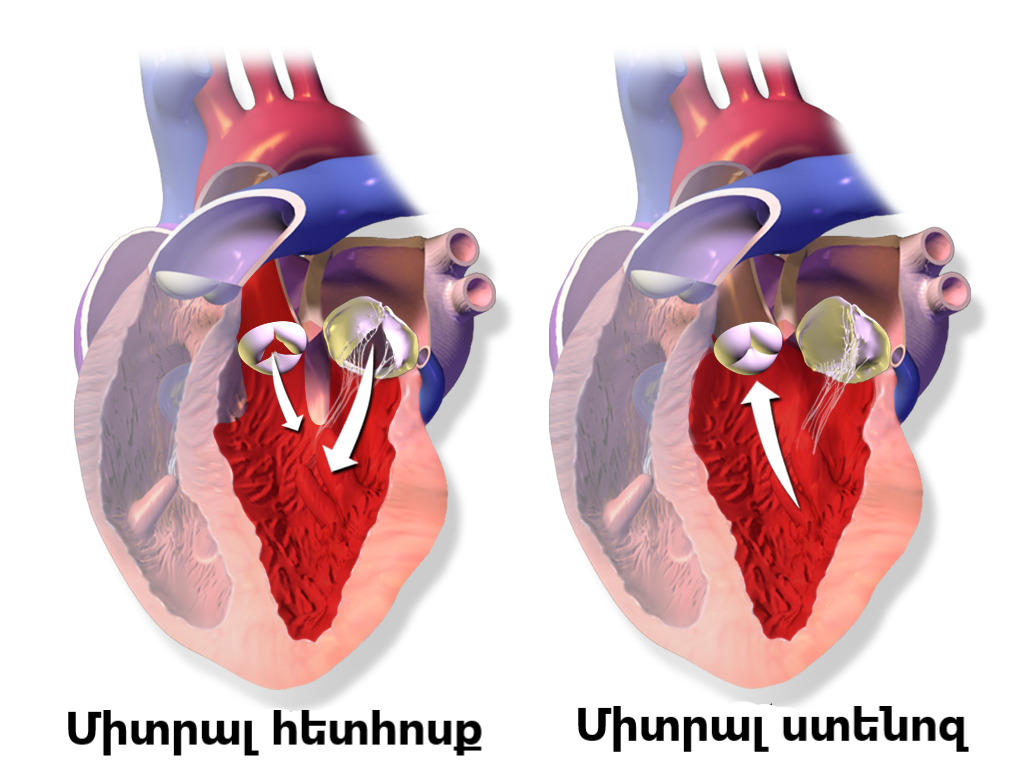 Միտրալ փականի ստենոզ և անբավարարություն